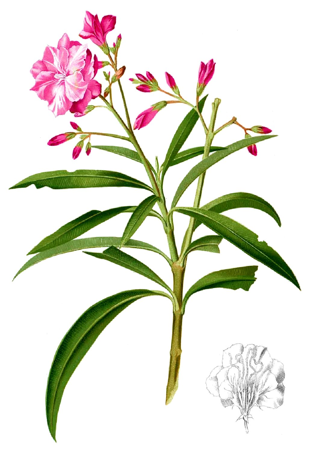 Plate from book